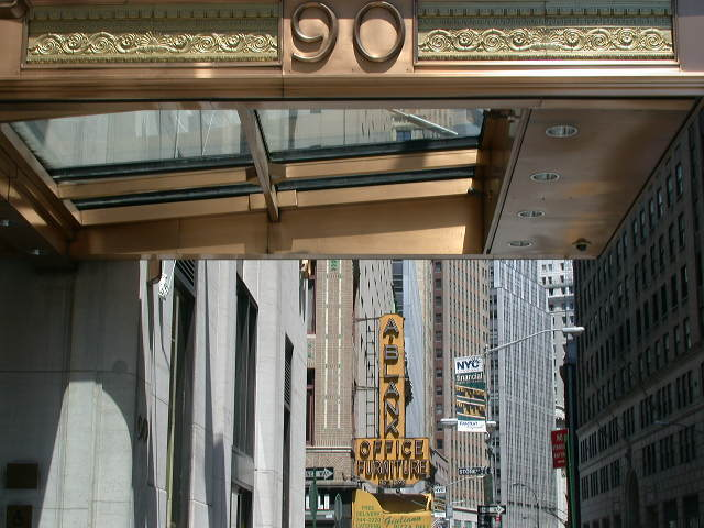 Broad Street in lower Manhattan © 2004 Matthew Trump